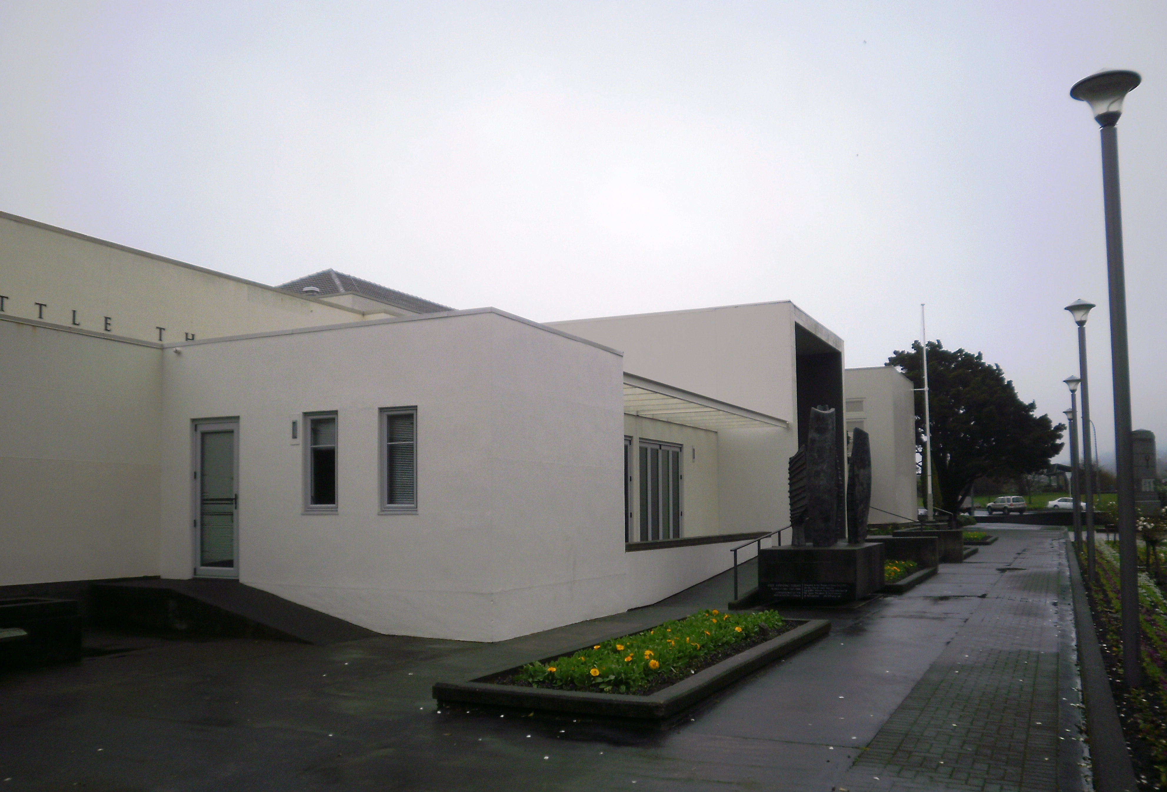 The Lower Hutt War Memorial Library.